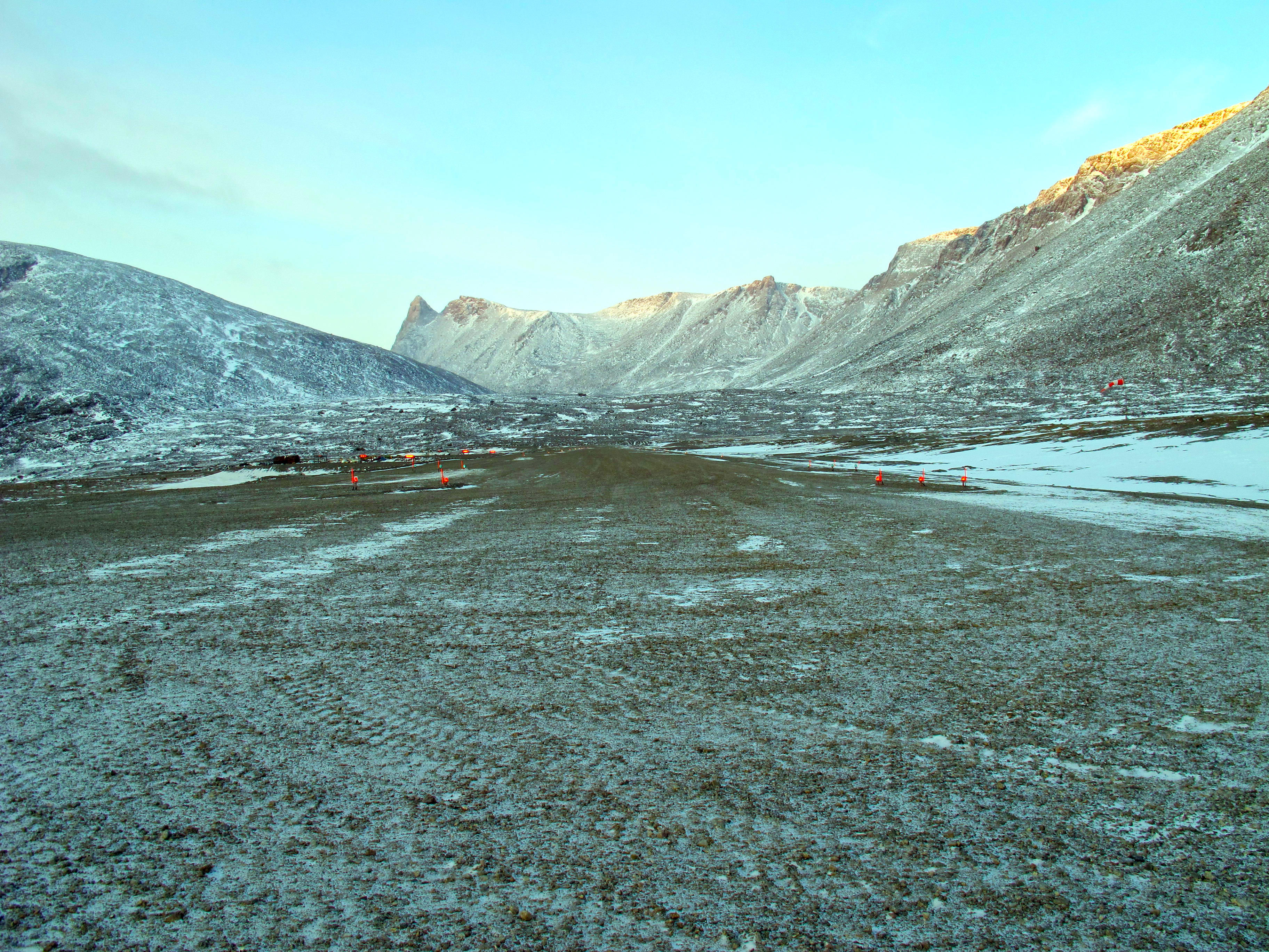 Looking from the threshold toward the mountains